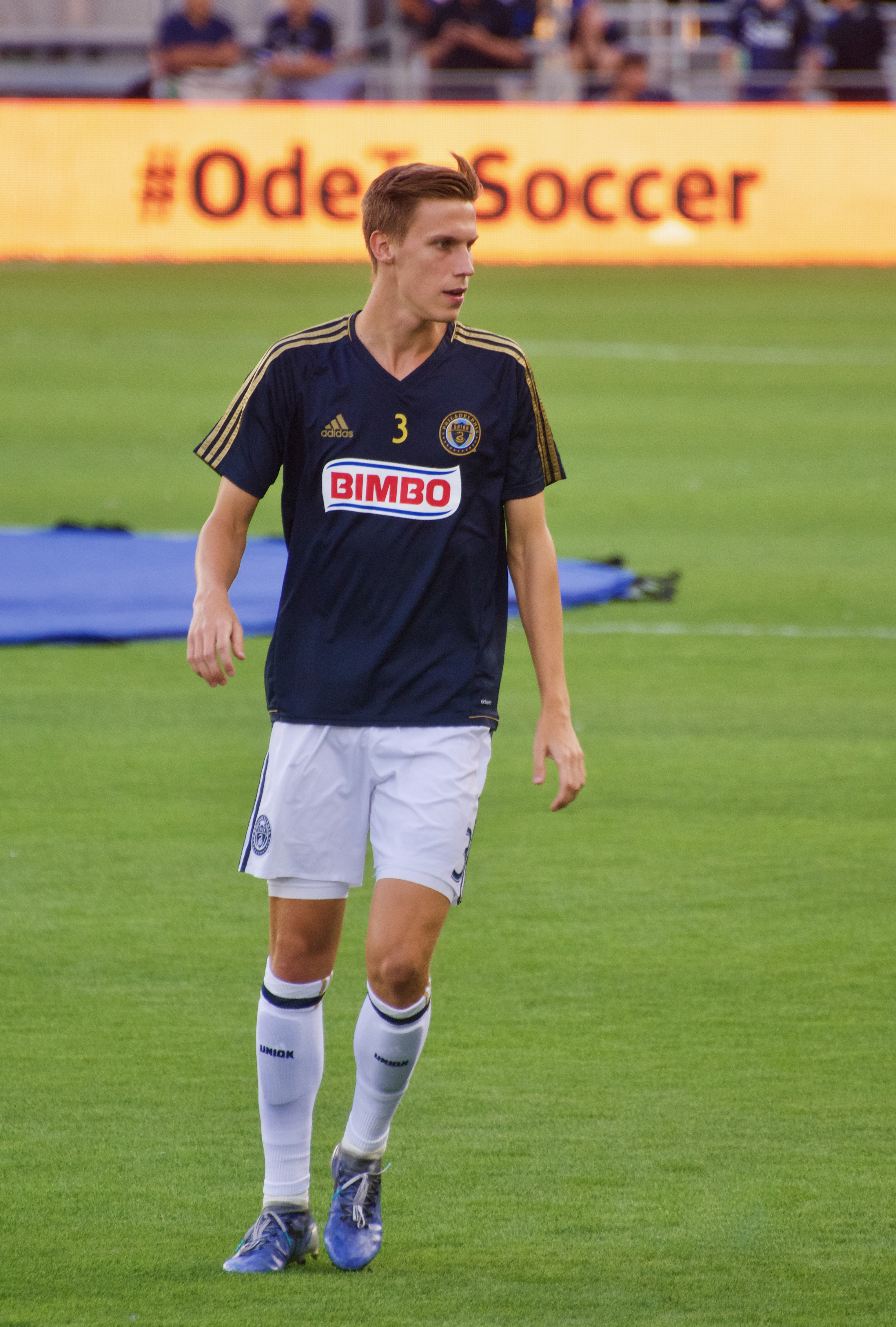 Jack Elliott warming up for Philadelphia Union at Avaya Stadium on 19 August 2017.